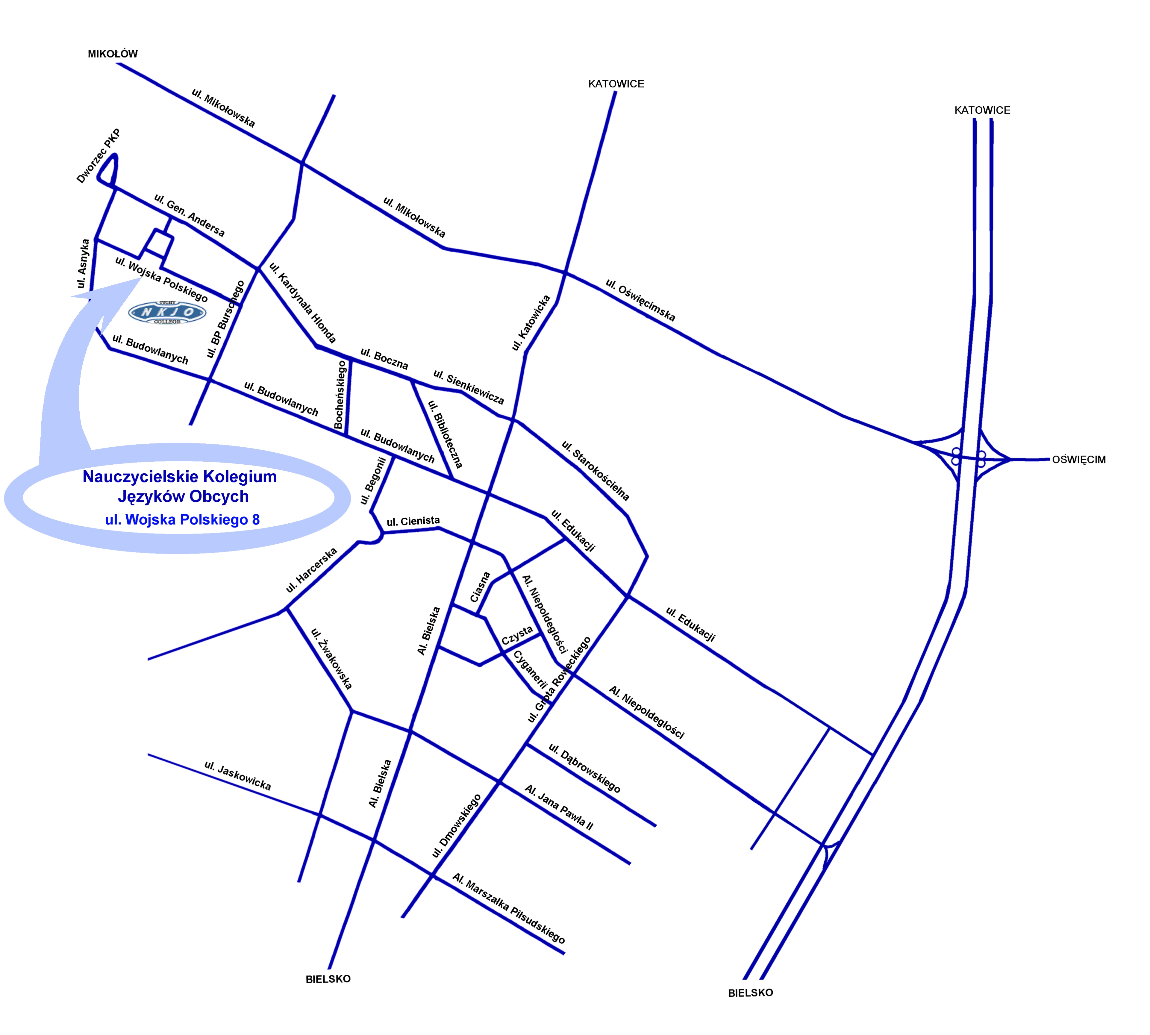 Map of how to get to NKJO Tychy in Poland (NKJO=Teacher Training College)